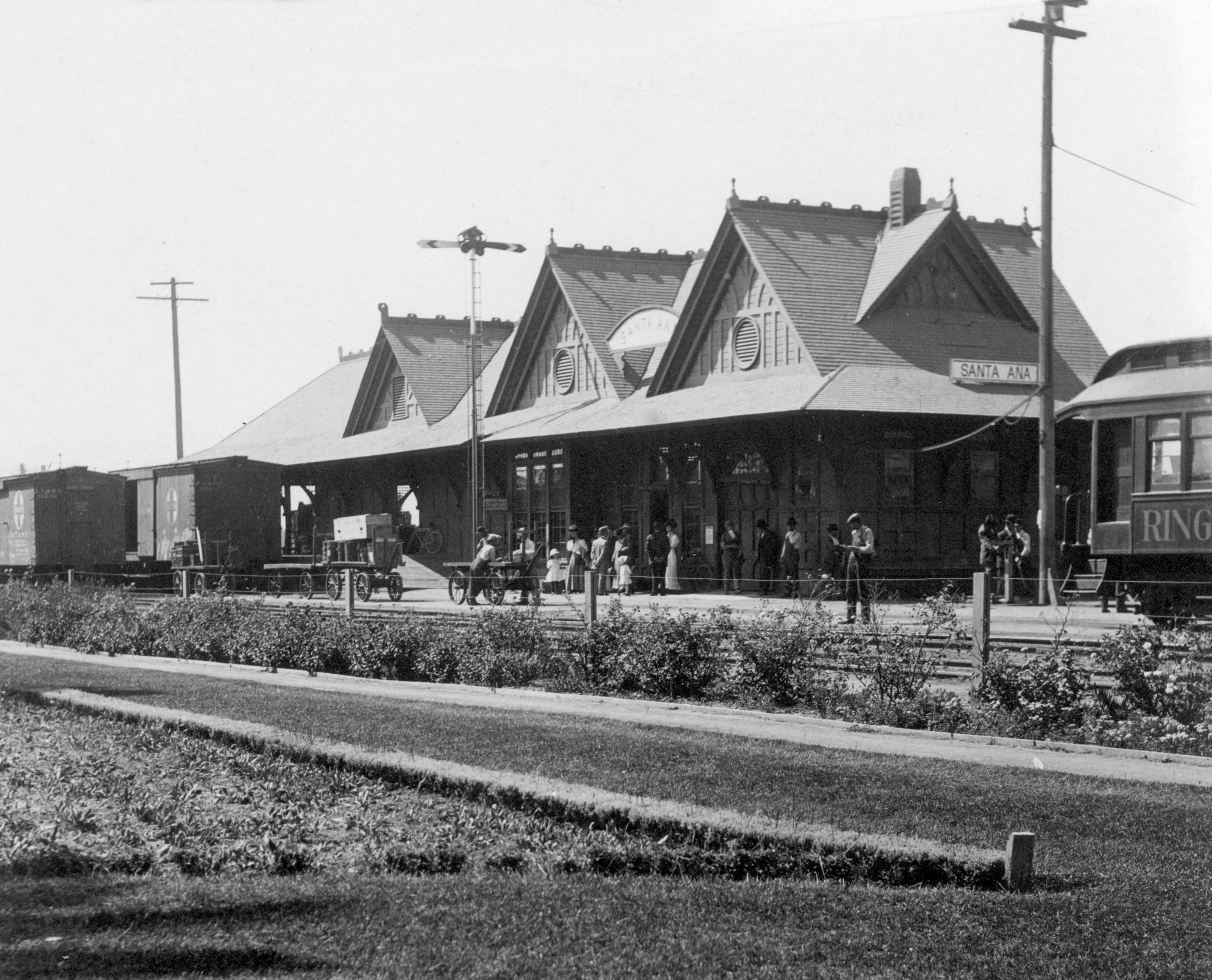 There are no known copyright restrictions on this image. All future uses of this photo should include the courtesy line, "Photo courtesy Orange County Archives." Comments are welcome after reading our Comment Policy. Acc#2008.17